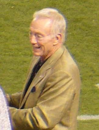 Jerry Jones owner of dallas cowboys 2008.jpg